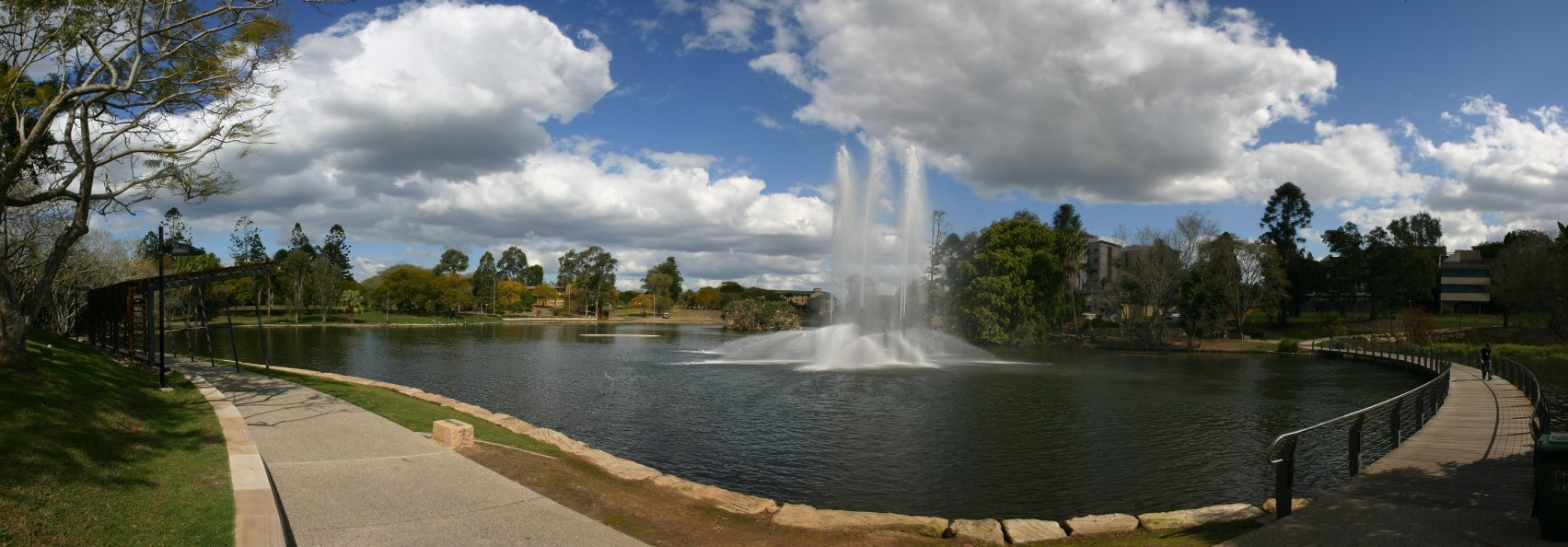 UQ Lake viewed toward the South-West at the University of Queensland, St Lucia, Queensland, Australia